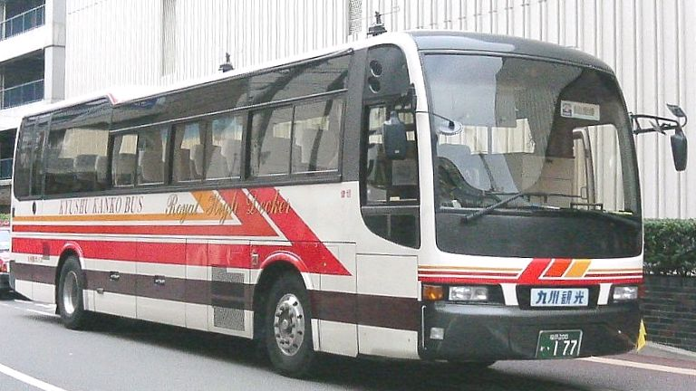 Kyushu Kanko Bus. See below.